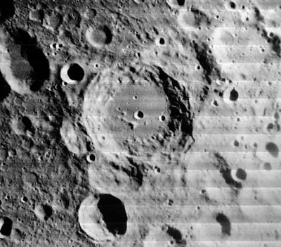 Pontecoulant crater - Lunar Orbiter IV image LO iv 044 h3